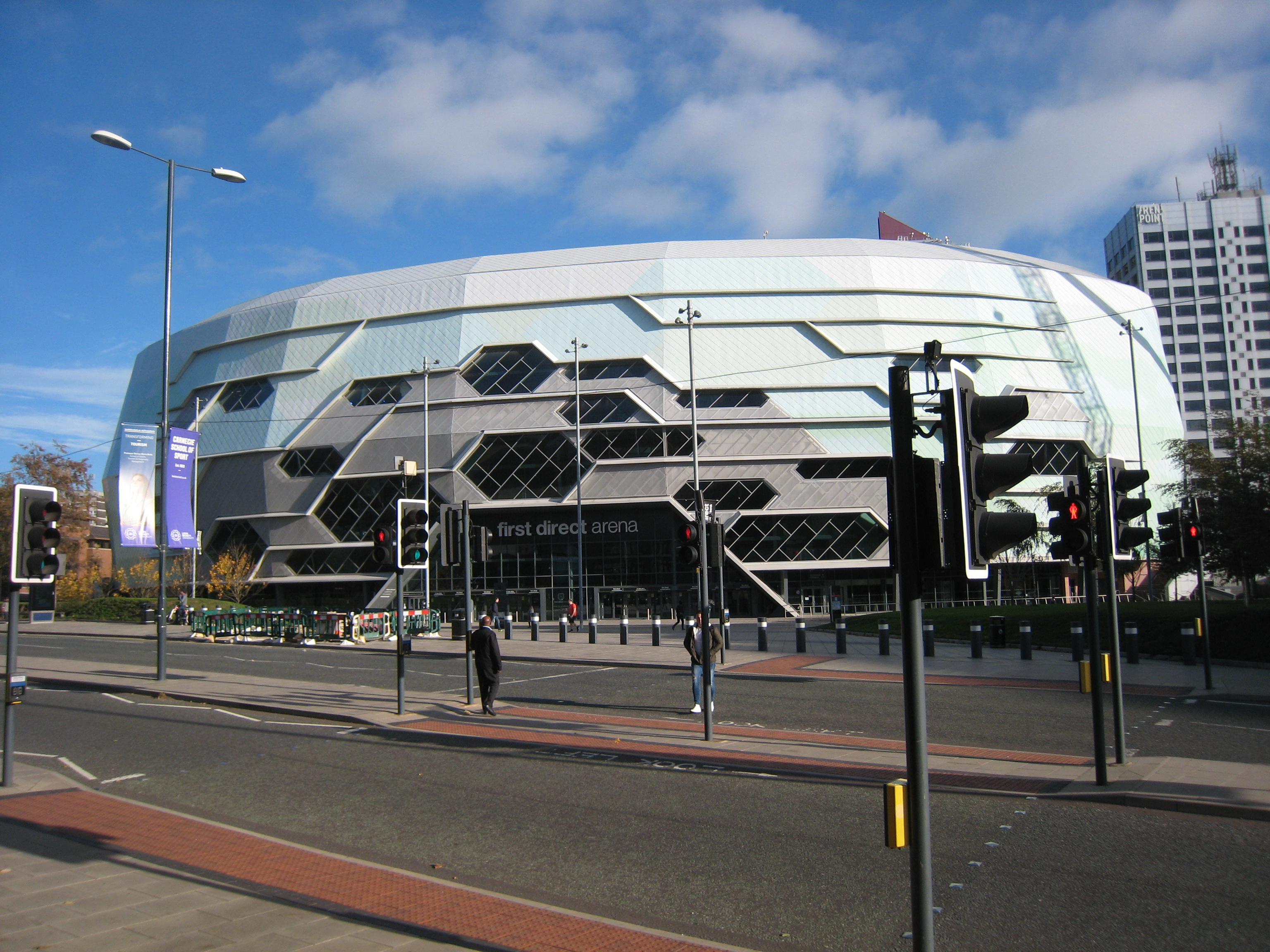 First Direct Arena, Claypit Lane, Leeds.